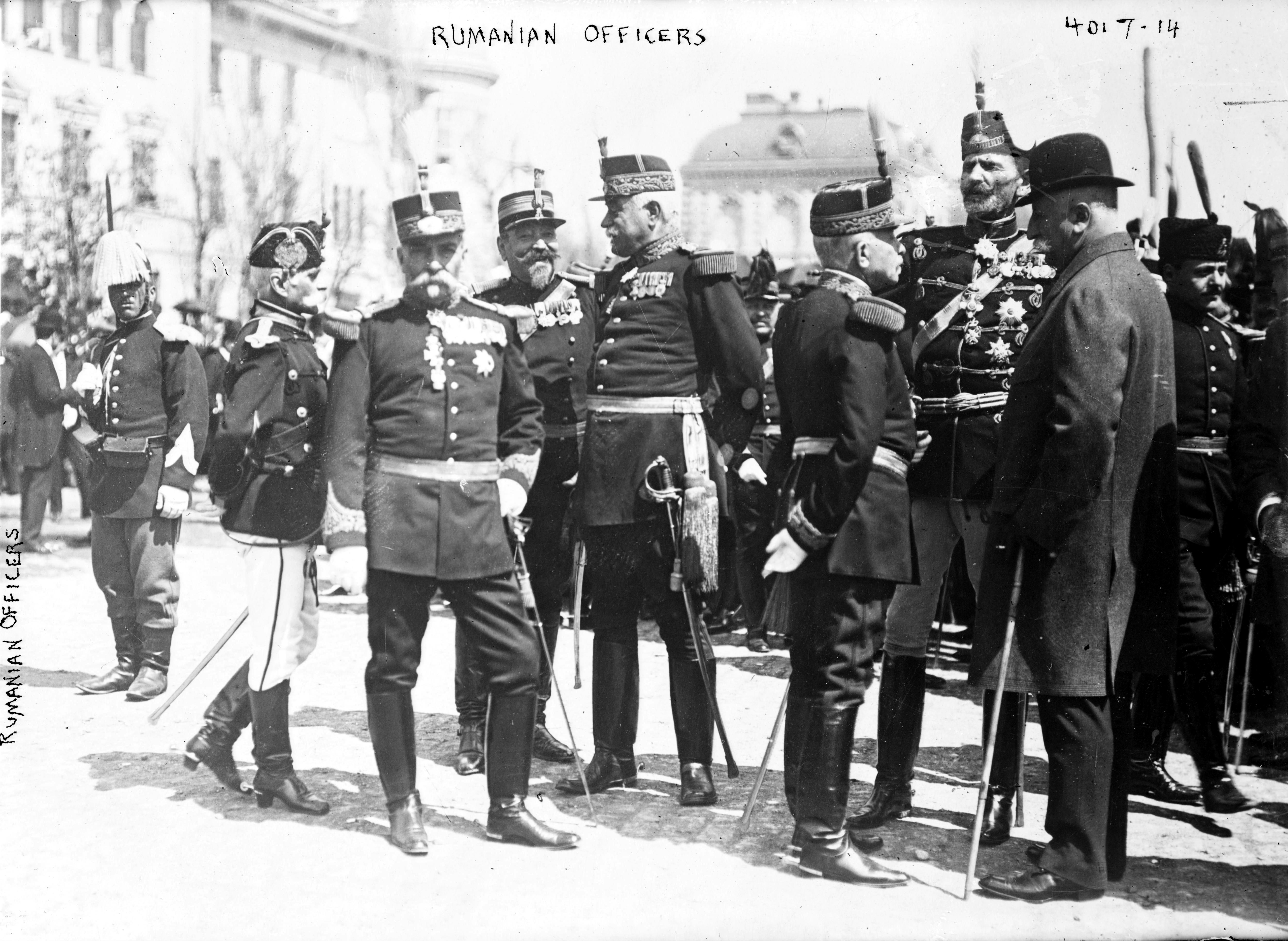 Romanian Officers around WWI